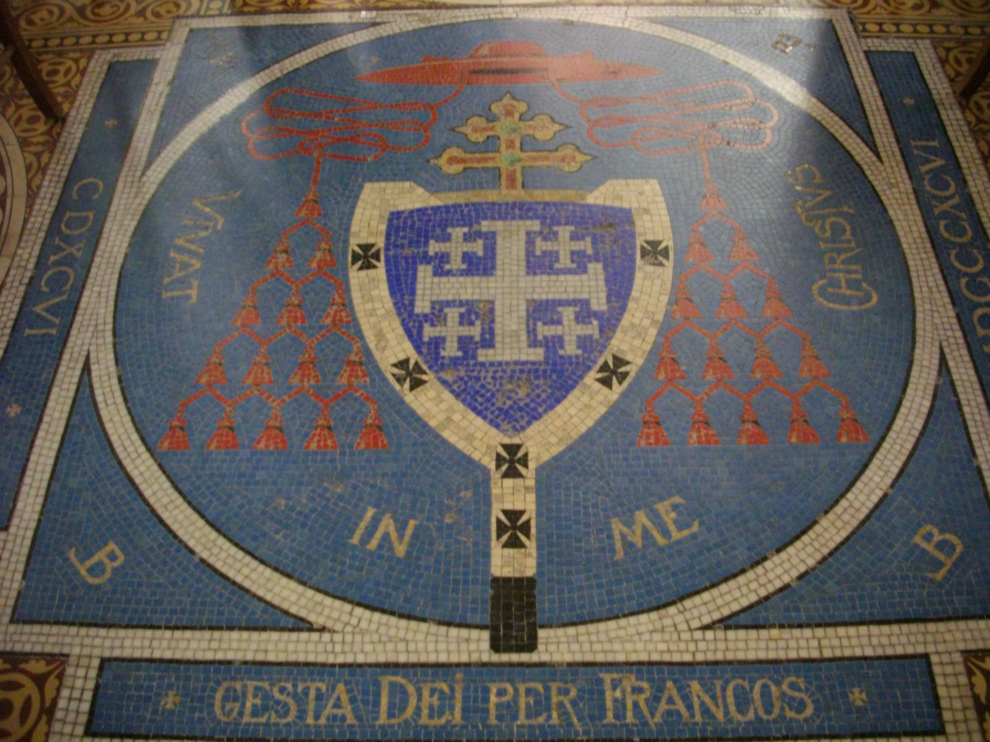 Saint Clotilde basilica of Reims (Marne, France), coats of arms of monsignor Langénieux below the dome